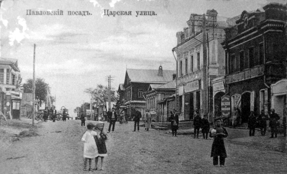 Pavlovsky Posad, Moscow Oblast, Russia. The beginning of Tsarskaya (now Kirova Street) seen from the corner of Voskresenskaya Square. Both houses on the right exist to date, although their fine brickwork is obscured by new layers of plaster.